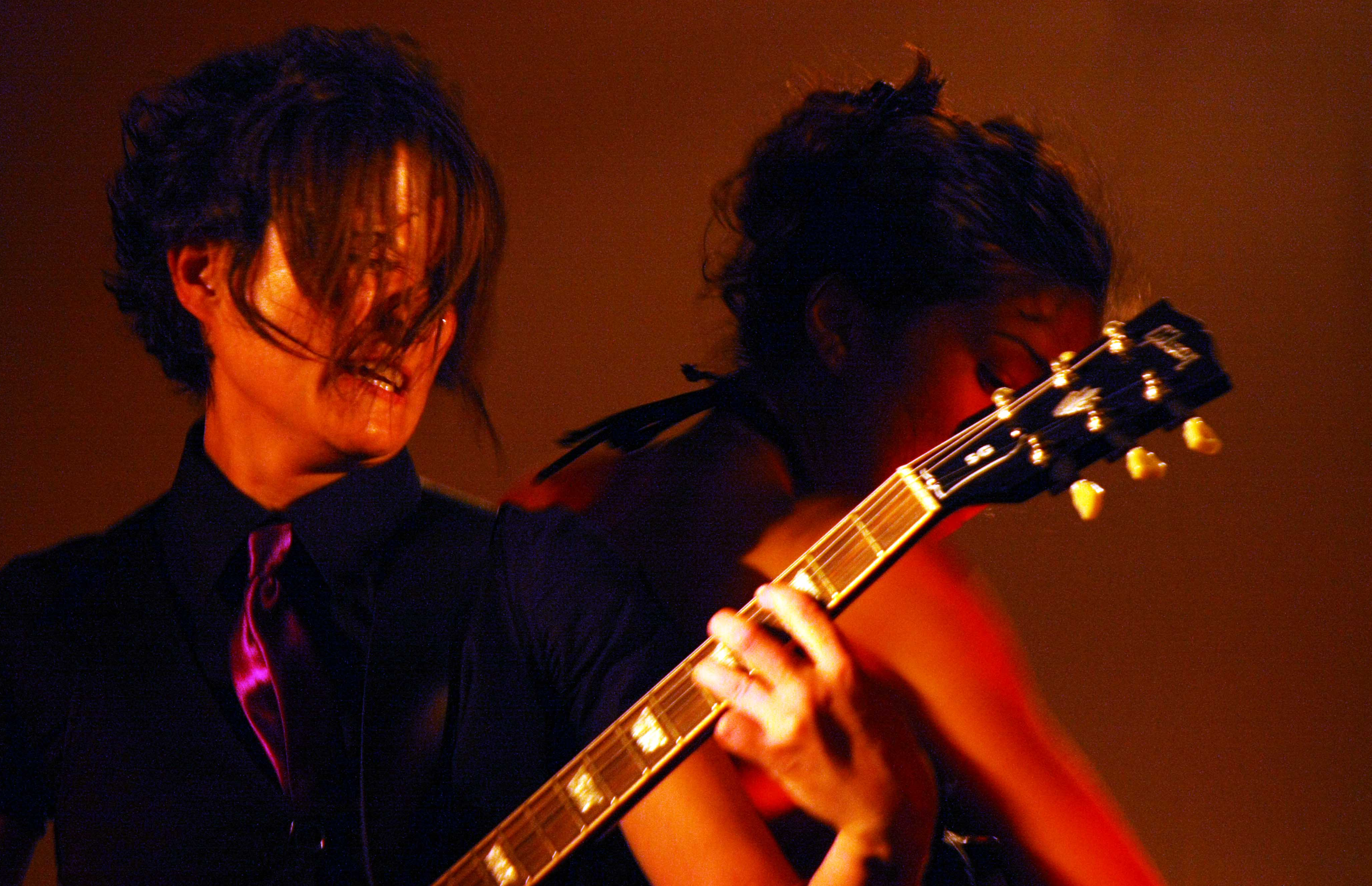 C.F.F. e il Nomade Venerabile live - June 2009